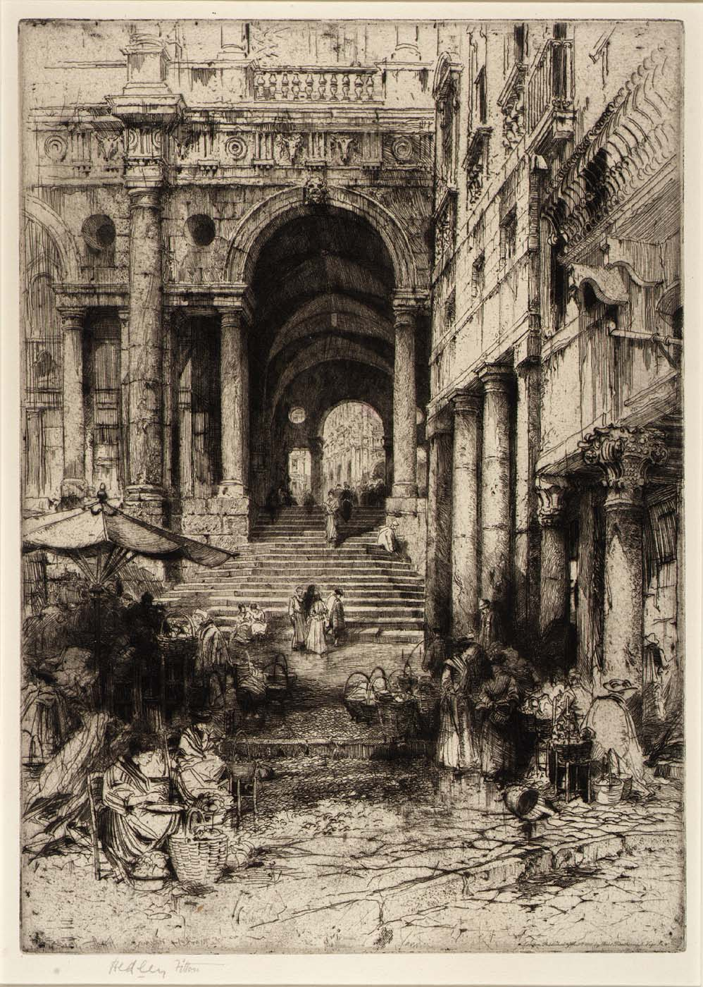 Image of Little Market, Vincenzia